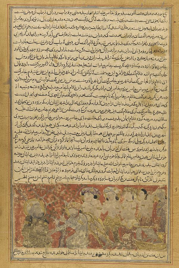 Folio from a Tarikhnama (Book of history) by Balami